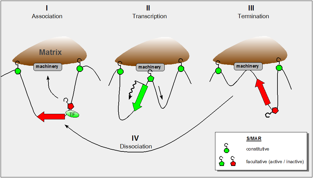 Dynamic properties of Nuclear matrix / S/MAR interactions